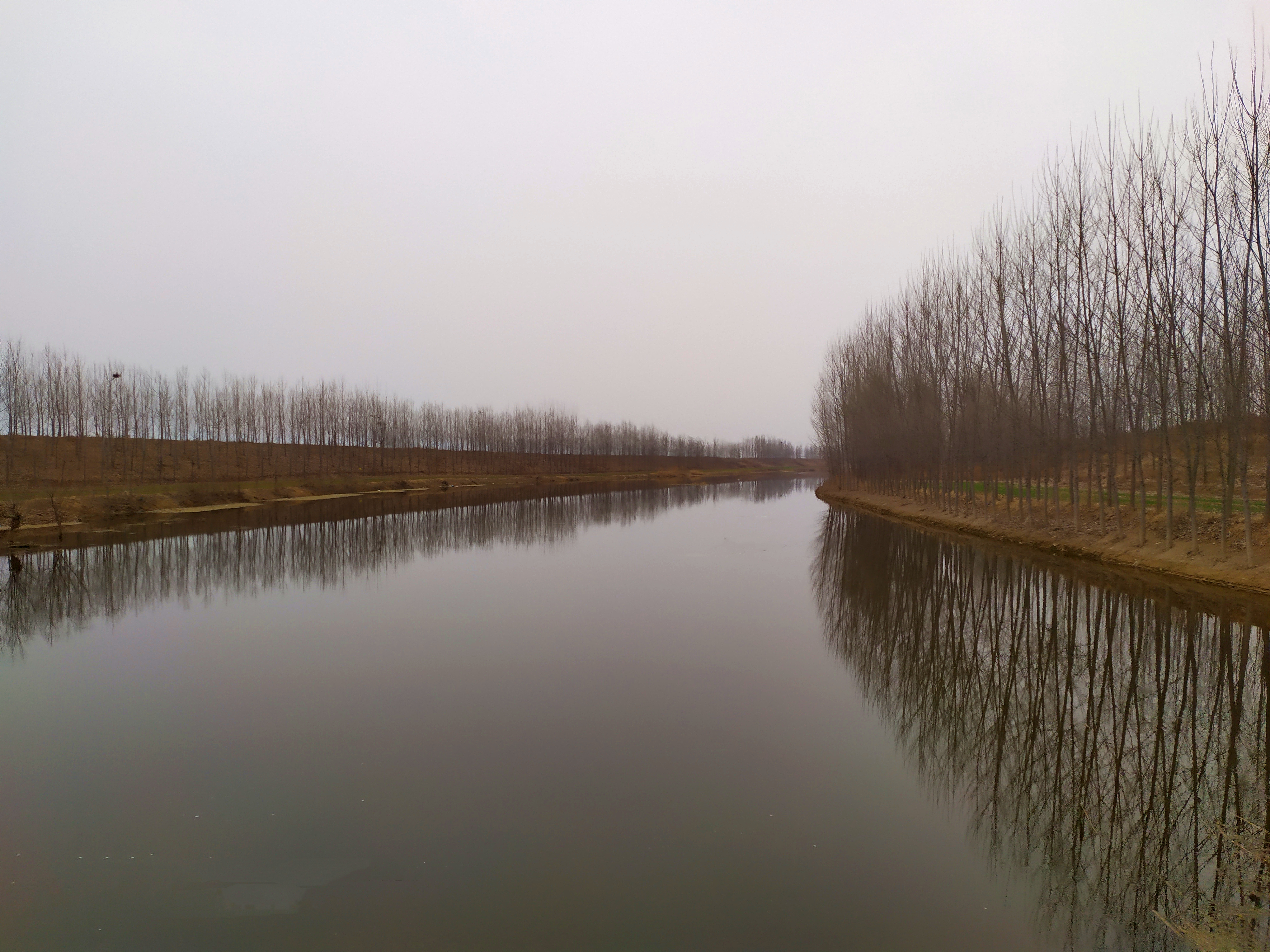 Hui River